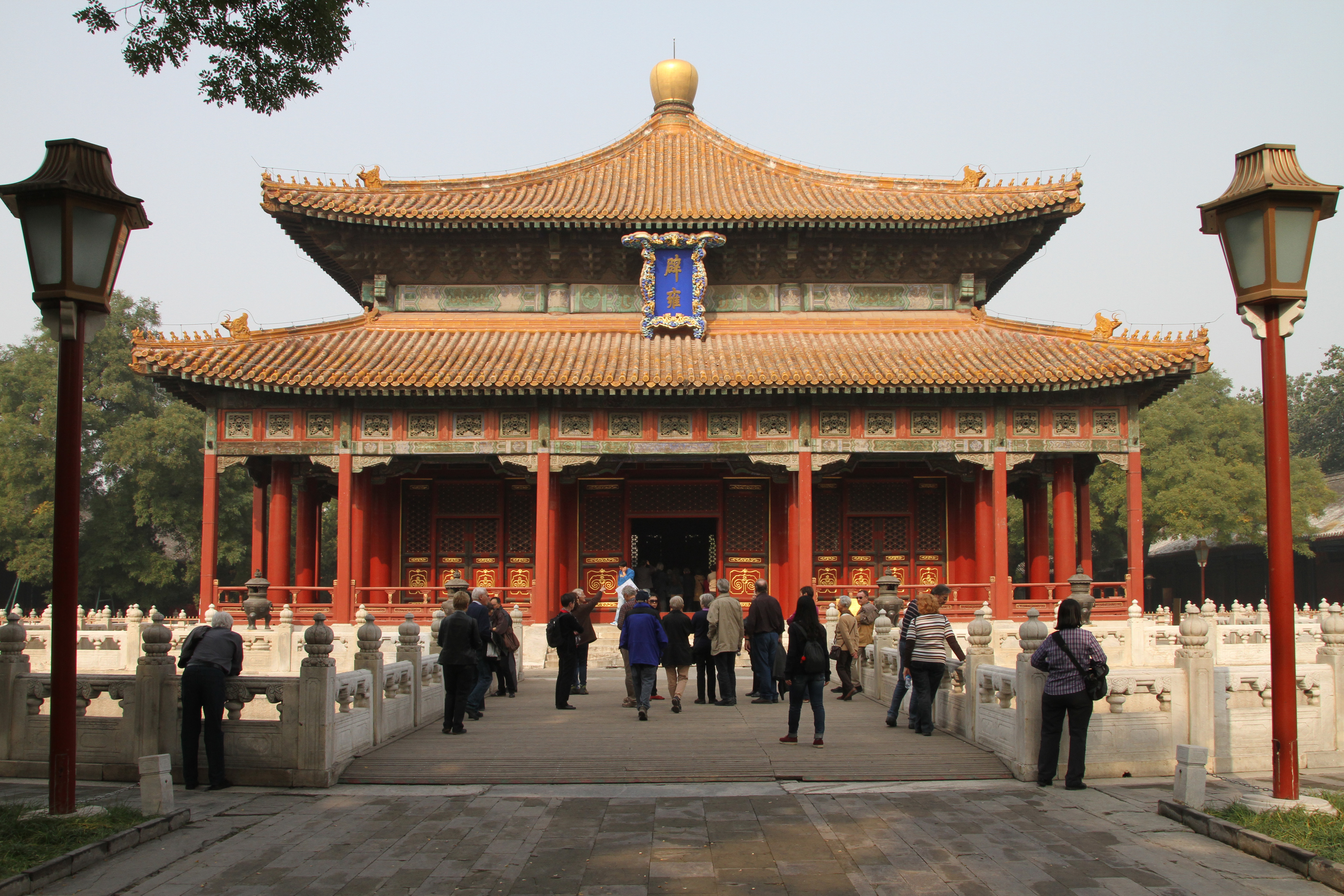 Kong Miao Konfucius Tempel at Beijing.